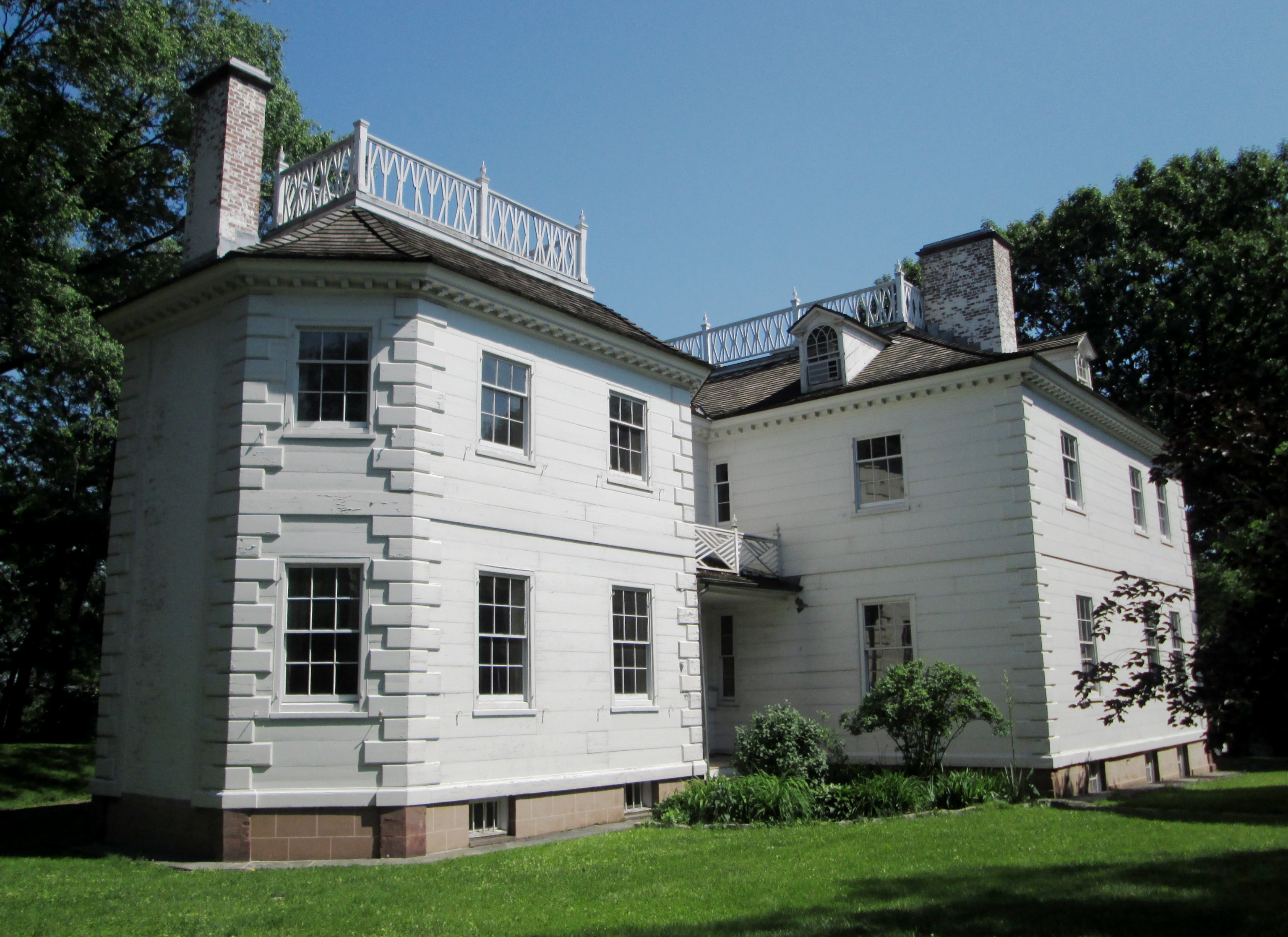 The Morris–Jumel Mansion, also known as the Roger and Mary Philipse Morris House, "Mount Morris" and other similar names, located at 65 Jumel Terrace in Roger Morris Park in the Washington Heights neighborhood of Manhattan, New York City, is the oldest house in the borough. It was built in 1765 in the Palladian style by Roger Morris, a British military officer, and served as a headquarters for both sides in the American Revolution. It was bought in 1810 by Stephen and Eliza Jumel, and remodeled in the Federal style. The interiors are Georgian. Aaron Burr later married Eliza Jumel and lived in the house. The estate was sold off in lots after 1882. Z(Sources: Guide to NYC Landmarks(4th ed.) and AIA Guide to NYC (5th ed.))